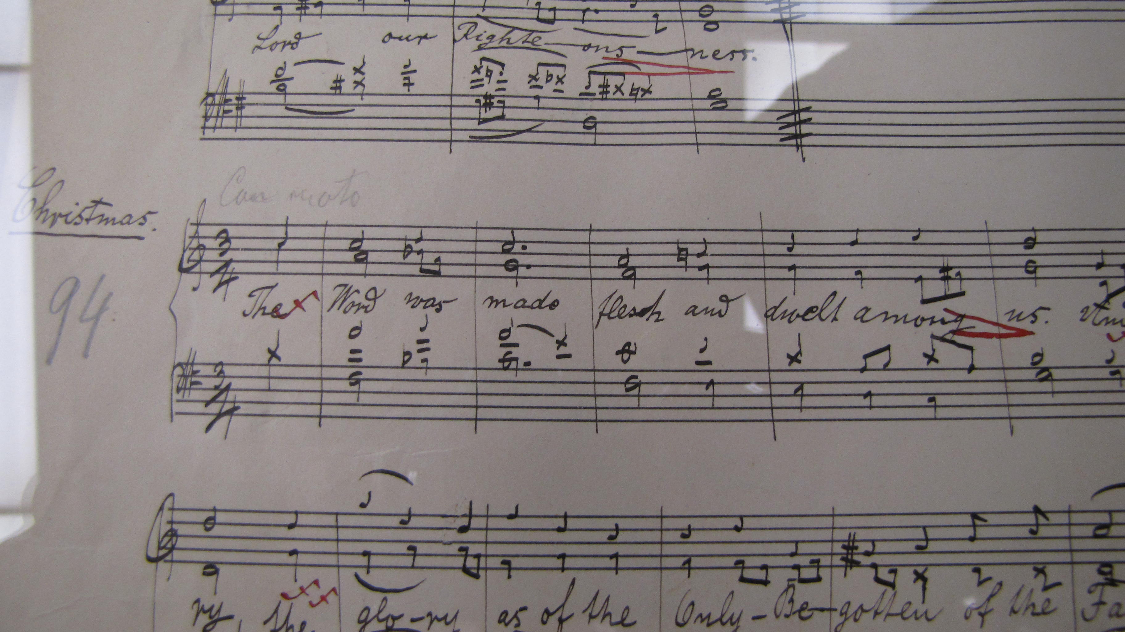 Autograph (detail) of Max Reger's 20 Responsorien (1911, published 1914), Lutheran Theological Seminary, Phildelphia, PA